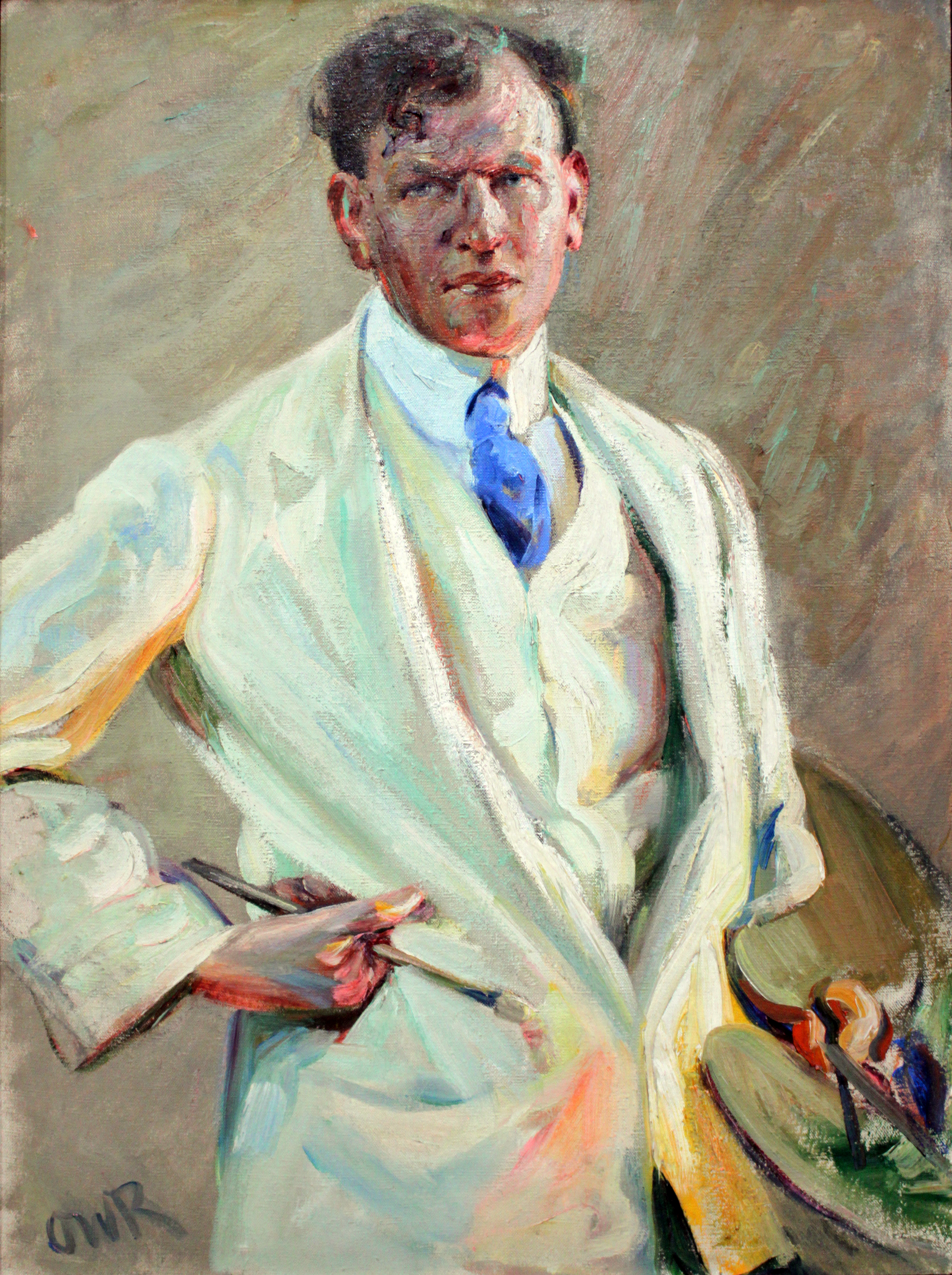 Portrait of the Painter Jakob Nussbaum